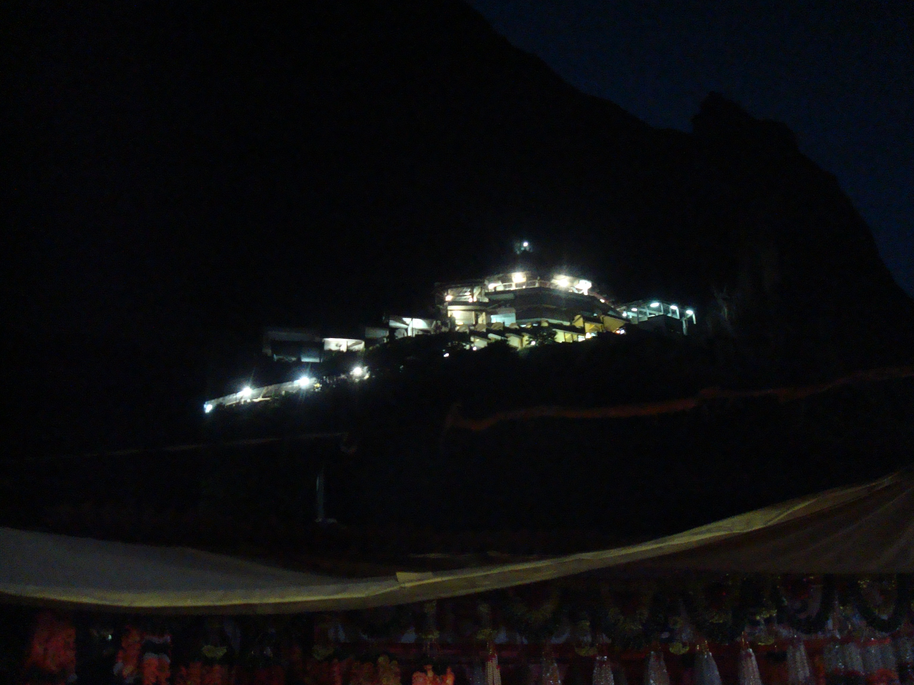 Saptashrungi temple as seen at night from down.